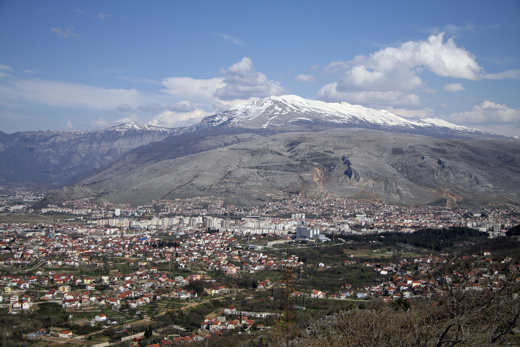 View of the City of Mostar and larger area from hill Žovnica (west from Mostar). Besides than the city itself in the picture are displayed Velez Mountain and some western, northeastern and southeastern suburbs.